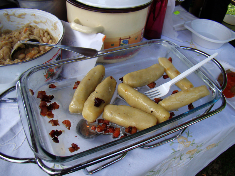 potato noodles with fried bacon